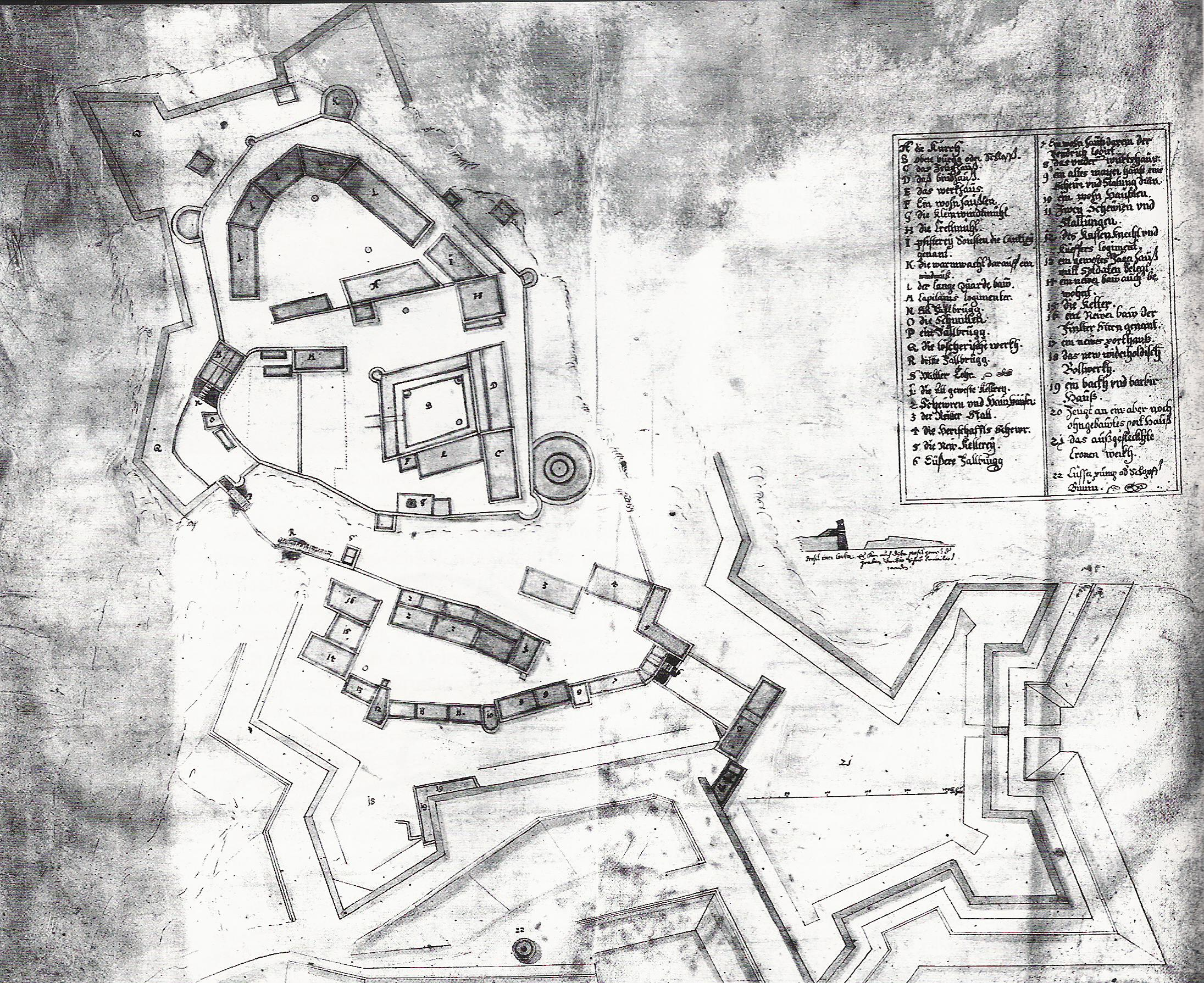 Castle Hohentwiel in southern germany, near Lake Constance.